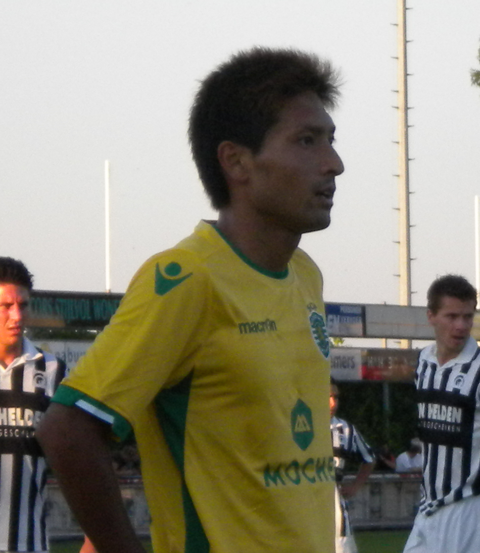 Japanese association football player Junya Tanaka of Sporting Lisbon in a friendly against Dutch side Achilles '29